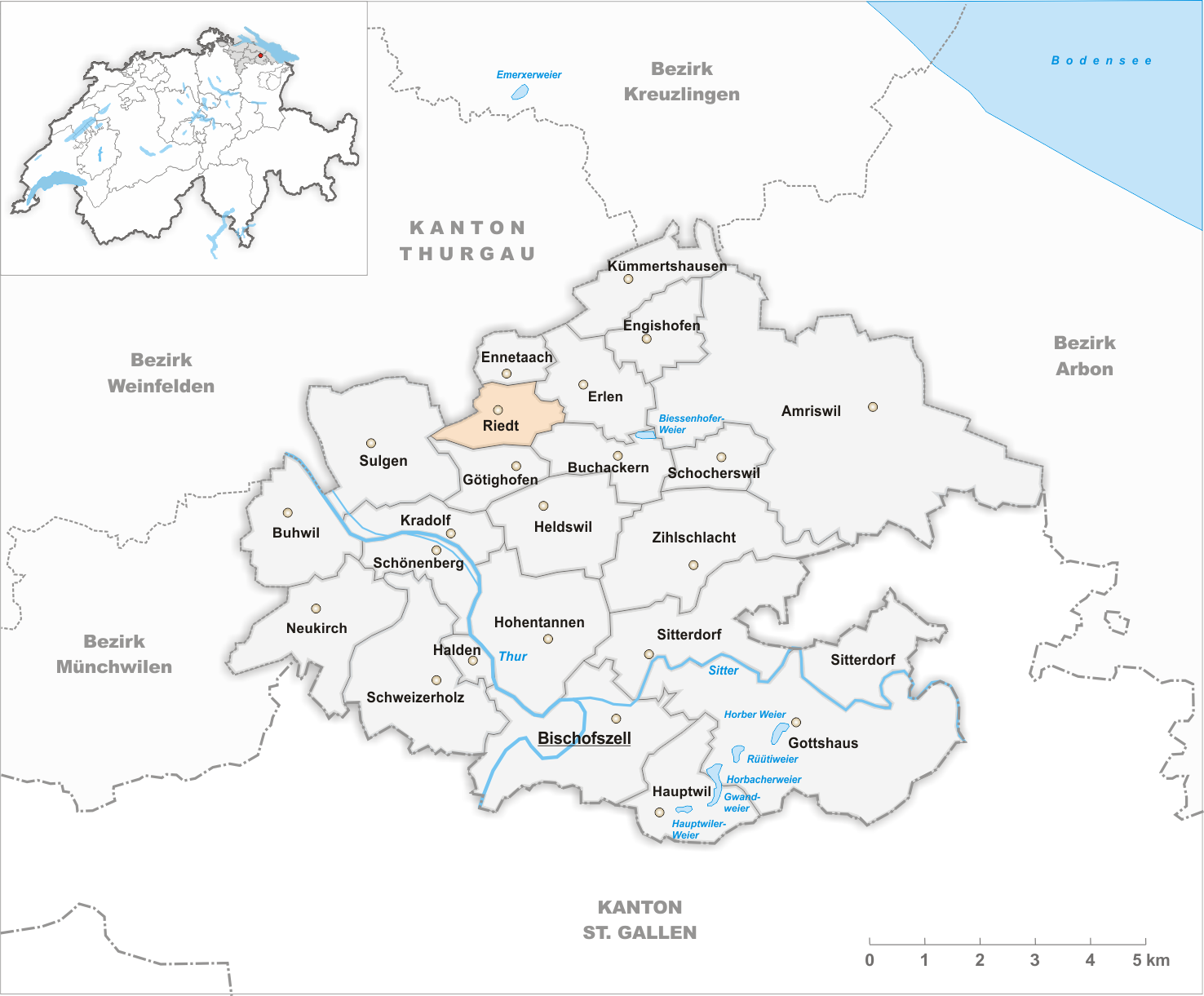 Municipality Riedt